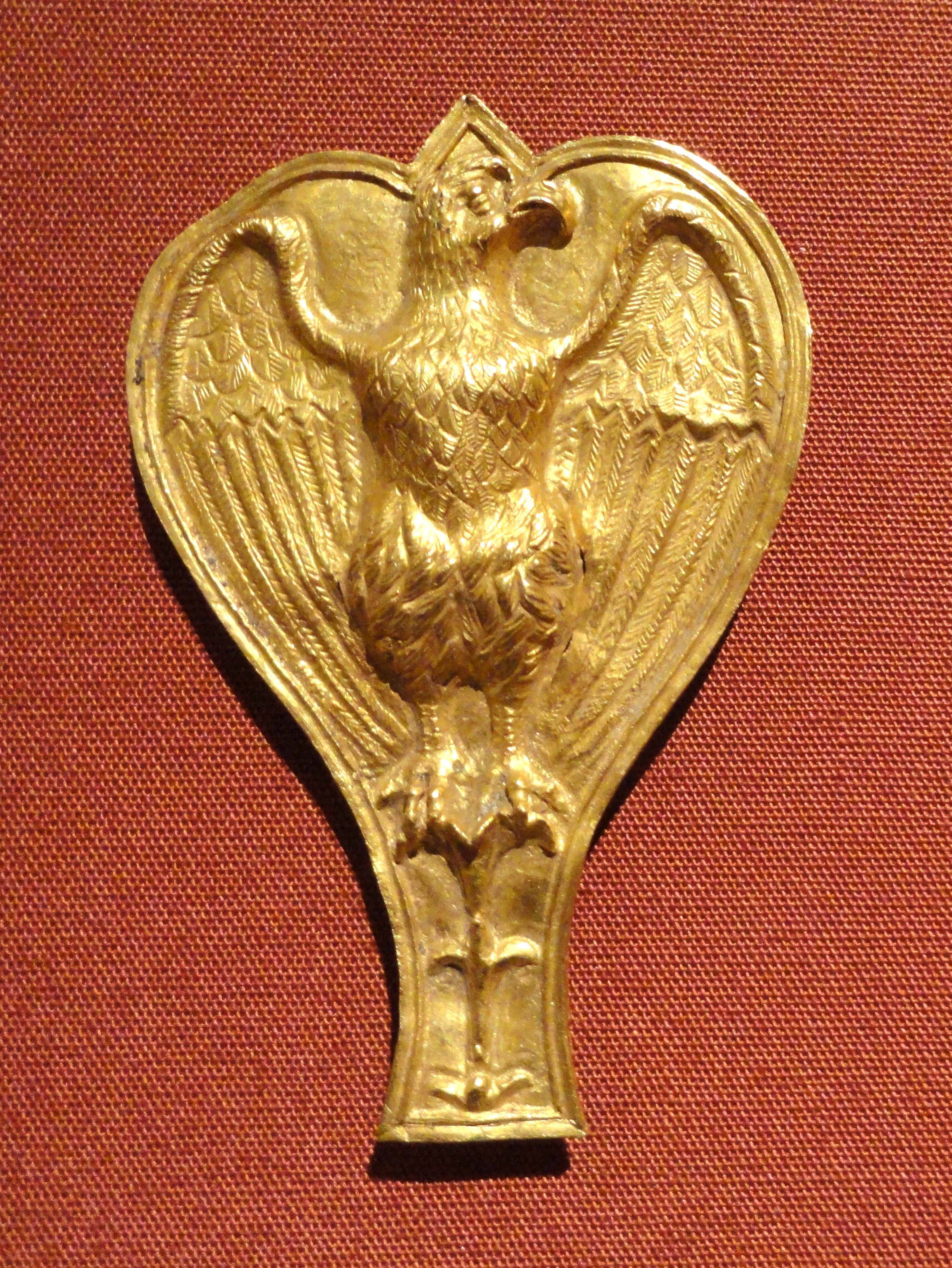 Exhibit in the Cleveland Museum of Art, Cleveland, Ohio, USA. This artwork is old enough so that it is in the public domain.